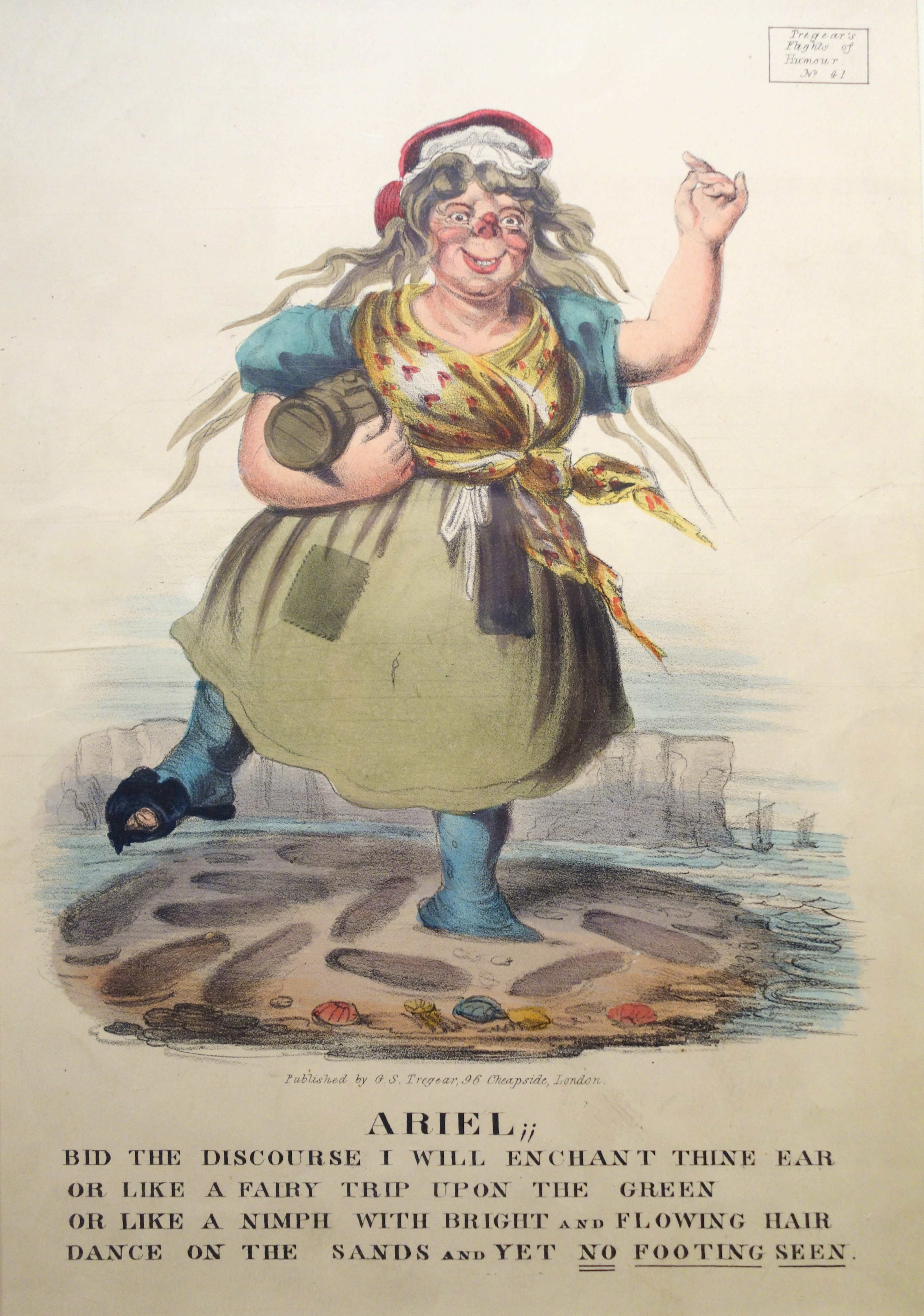 Ariel, Tregear's Flights of Humour, No. 41, by G. S. Tregear (1802–1841), England. This artwork is in the public domain because the artist died more than 100 years ago.